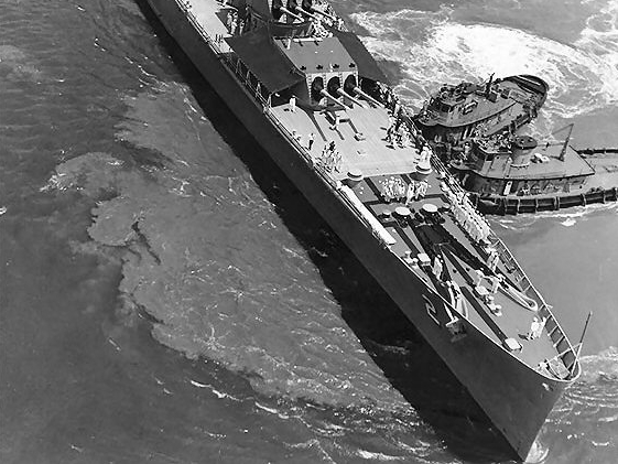 The U.S. Navy harbor tugs Segwarusa (YTB-365) and Ganadoga (YTB-390) move the guided missile cruiser USS Canberra (CAG-2) into position for the International Naval Review, in Hampton Roads, Virginia (USA), 12 June 1957.